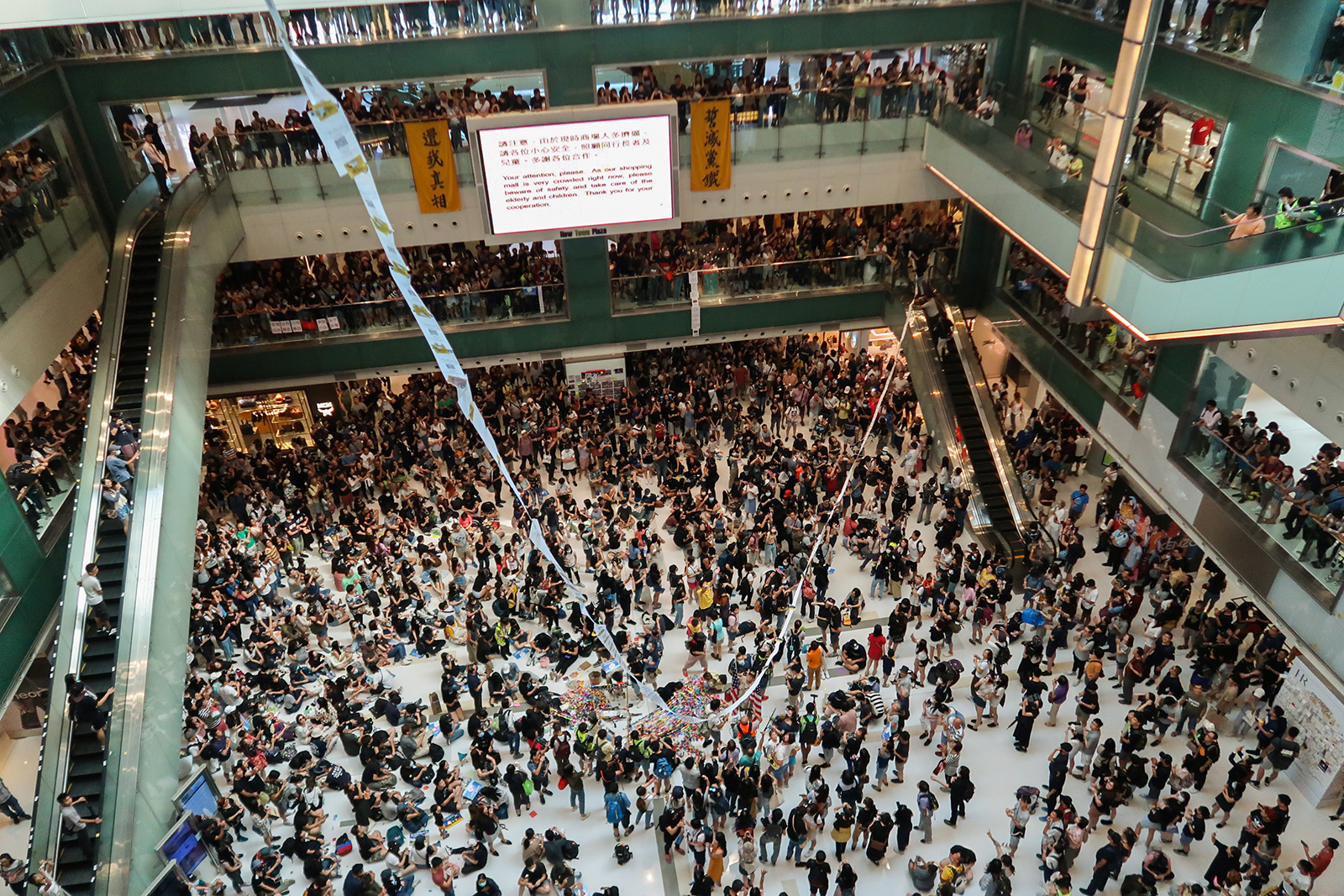 New Town Plaza Atrium recept